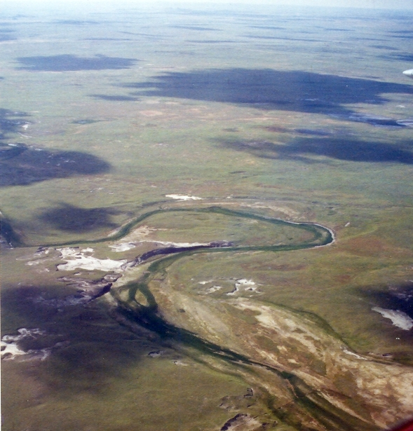 Aerial view of a modern meandering river. Western South Dakota.